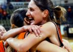 Adair County R-2 (Brashear) players celebrate Class 1A State Campionship, March 2003